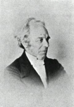 Picture of Michael Faraday